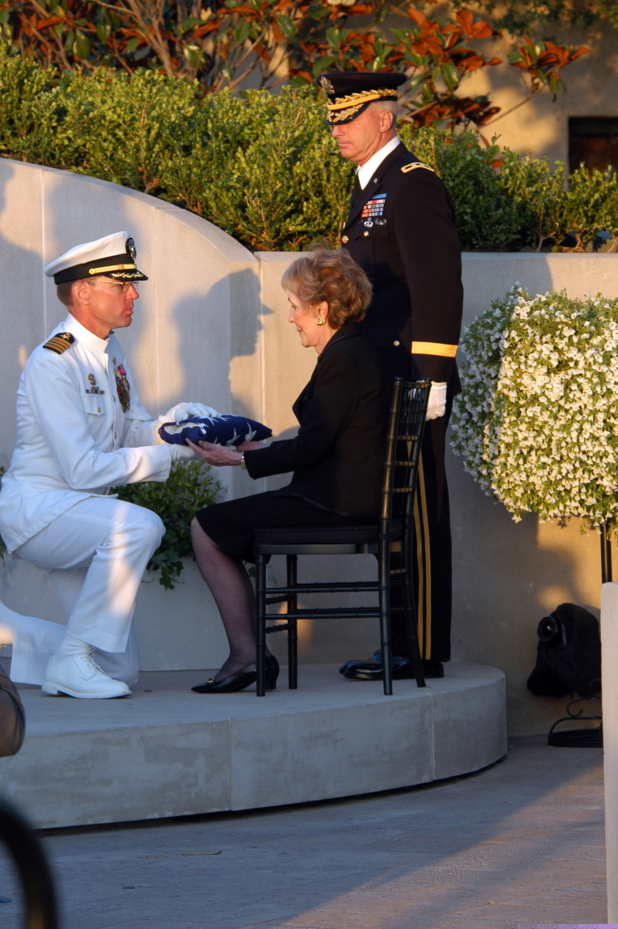 Commanding Officer, USS Ronald Reagan (CVN 76), Capt. James A. Symonds, presents former President Ronald Reagan's casket flag to former First Lady Nancy Reagan. Original caption: "Simi Valley, Calif. (Jun. 11, 2004) - Commanding Officer, USS Ronald Reagan (CVN 76), Capt. James A. Symonds, presents former President Ronald Reagan's casket flag to former First Lady Nancy Reagan during internment services held at the Ronald Reagan Presidential Library in Simi Valley, Calif. The flag was flown at former President Ronald Reagan's inauguration. The observance concluded the weeklong state funeral services for Ronald Reagan, 40th President of the United States who passed away on June 5, 2004."